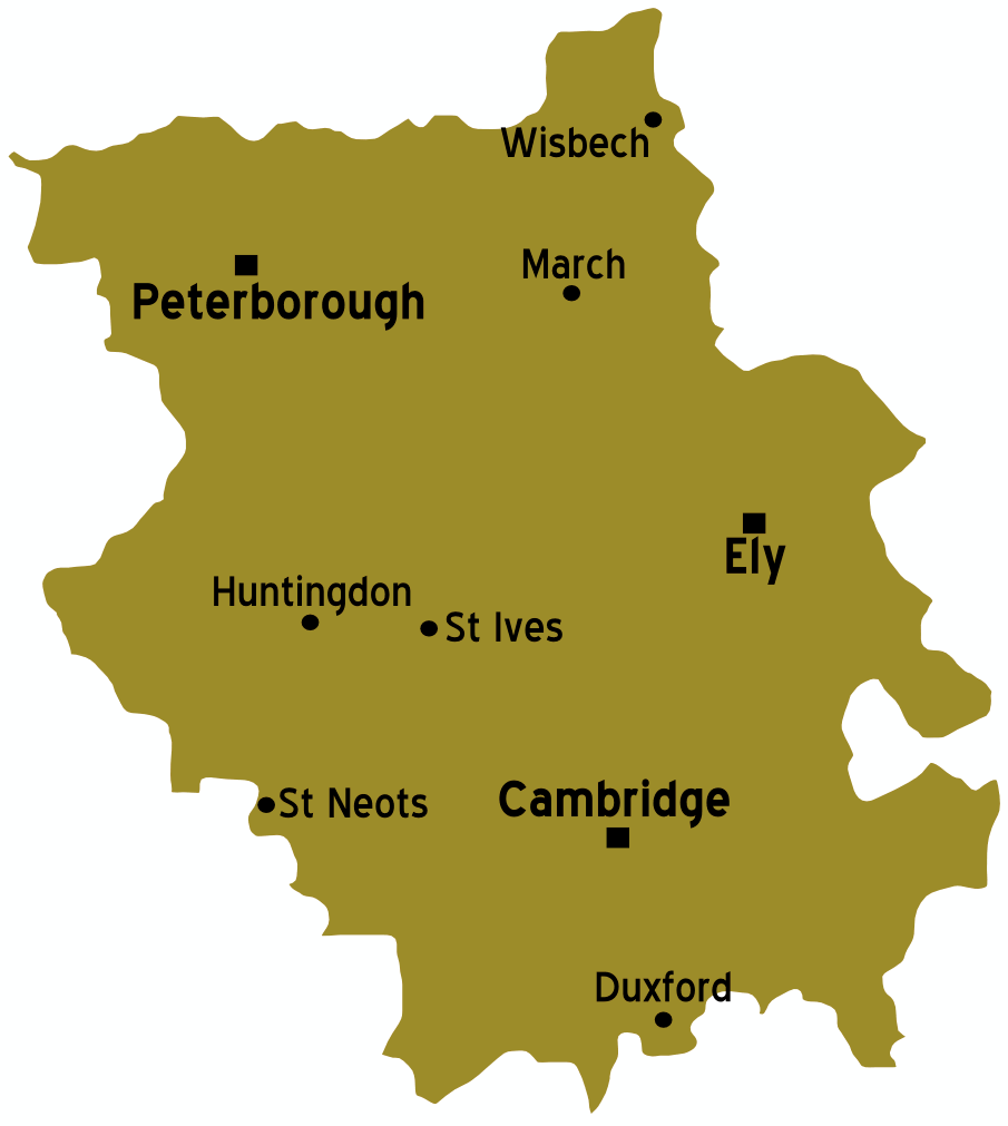 Map of Cambridgeshire, United Kingdom.